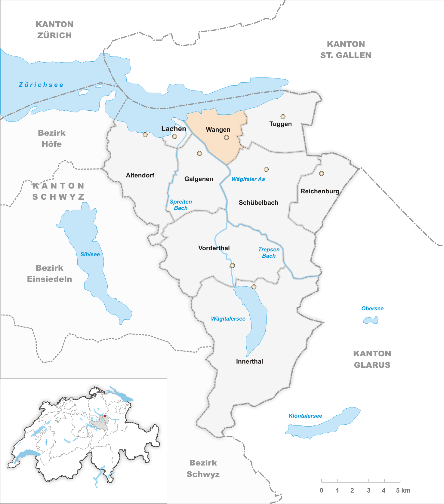 Municipality Wangen